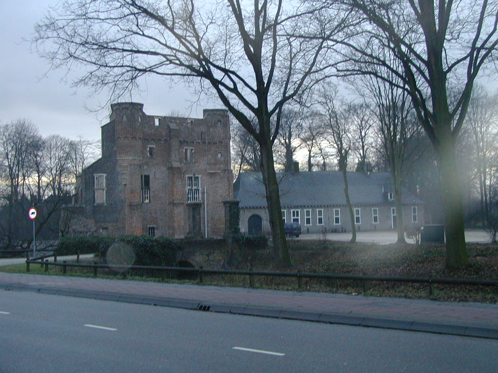 Ruins of the "Great Castle" in Deurne (Netherlands)